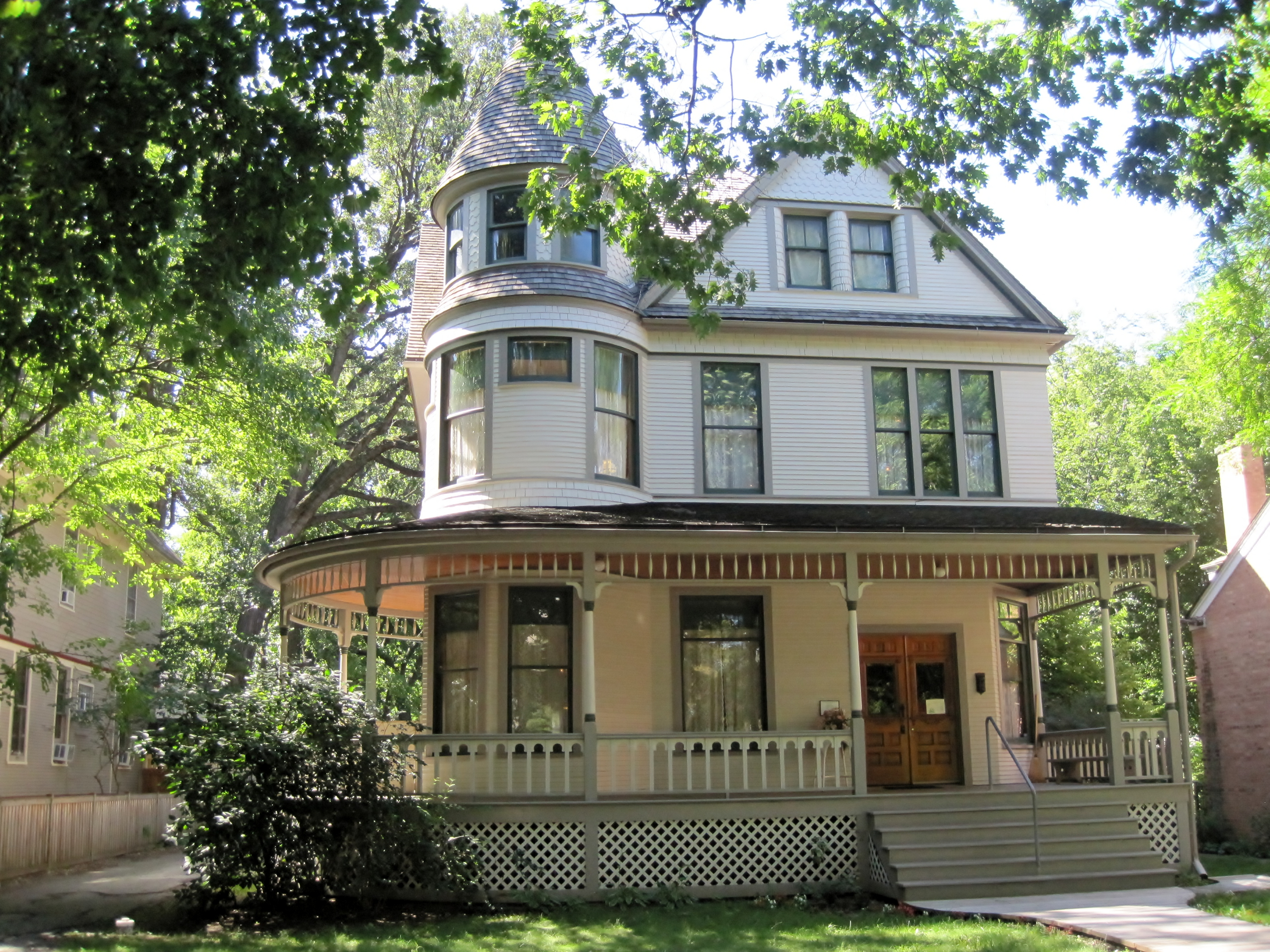 The Ernest Hemingway Birthplace in the Frank Lloyd Wright-Prairie School of Architecture Historic District in Oak Park. Hemingway lived here until he was six. Hemingway's father was a physician and his mother was a musician. He was named after his mother's father, Ernest Hall.